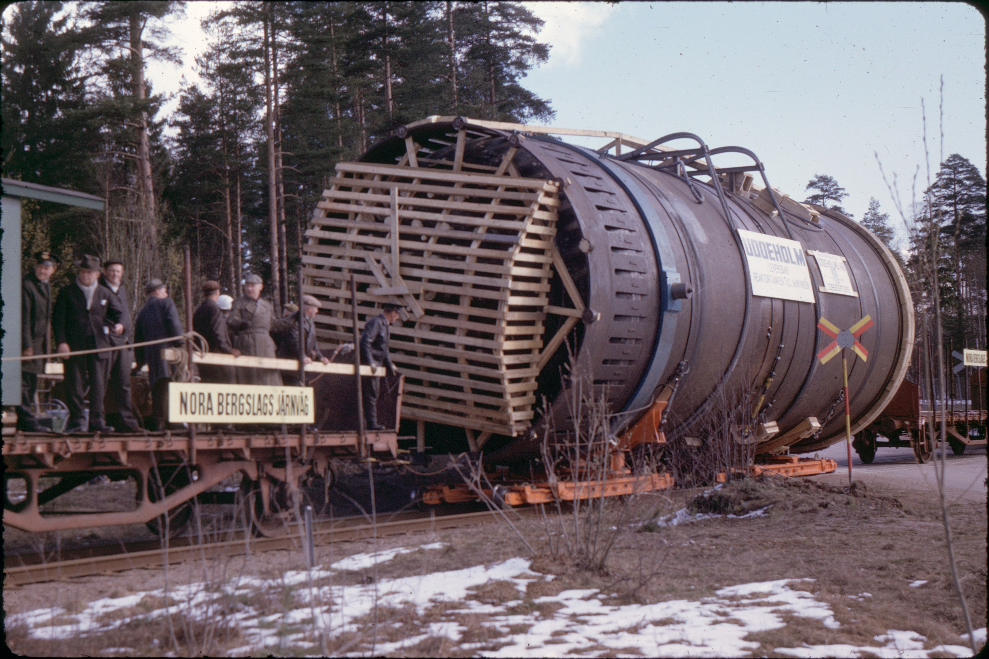 Nora Bergslags railway. Nuclear reactor under transport to the nuclear power plant Marviken in 1967.